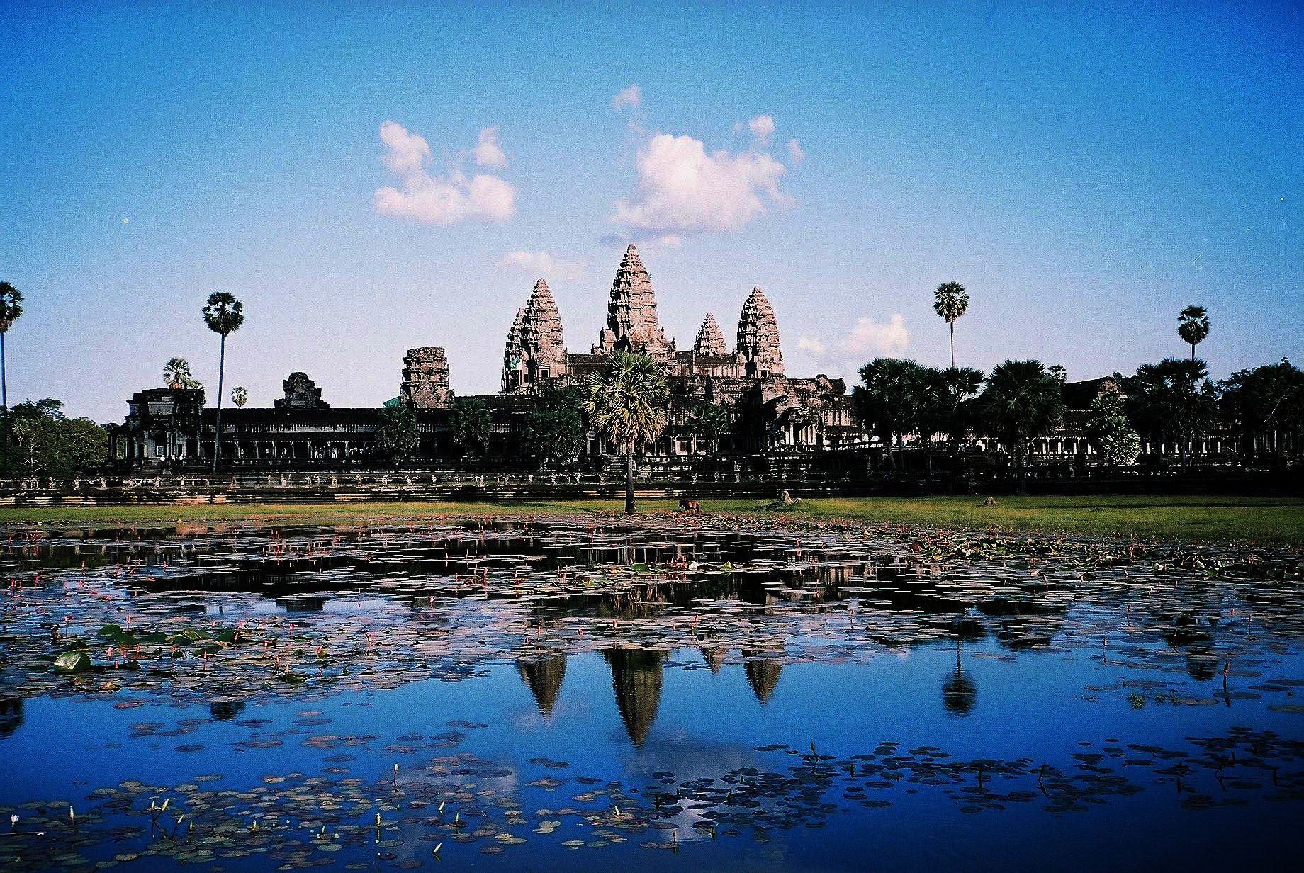 Angkor Wat from north lotus pond